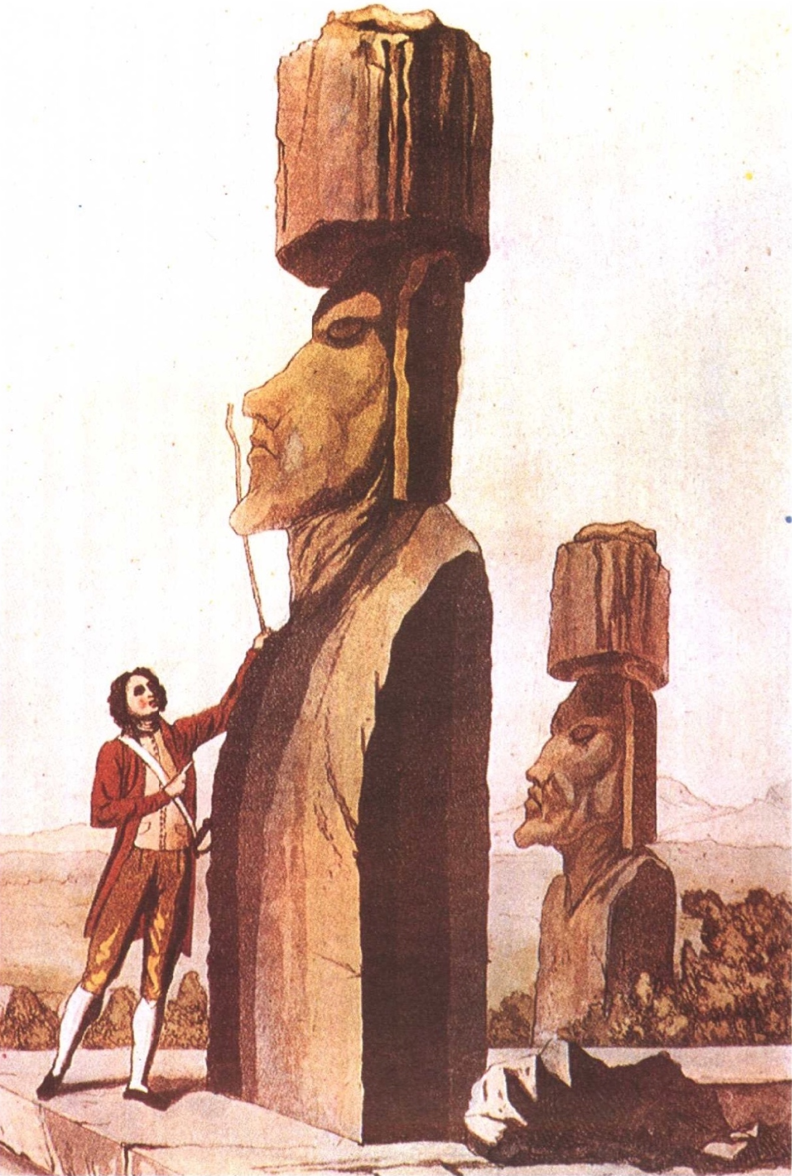 Statues on Easter Island, 18th-century engraving. Discovered in 1721 by the Dutchman Jacob Roggeveen, monumental statues set into the earth on Easter Island seem to symbolize a secret of eternity. To this day, the wooden tablets and the stones, with over five hundred different signs carved by the same hands that erected the statues, remain unintelligible. — Illustration in the book Writing: The Story of Alphabets and Scripts (p. 127) by Georges Jean, translated by Jenny Oates, “Abrams Discoveries” series, 1992. New York: Harry N. Abrams. Description on page 202.